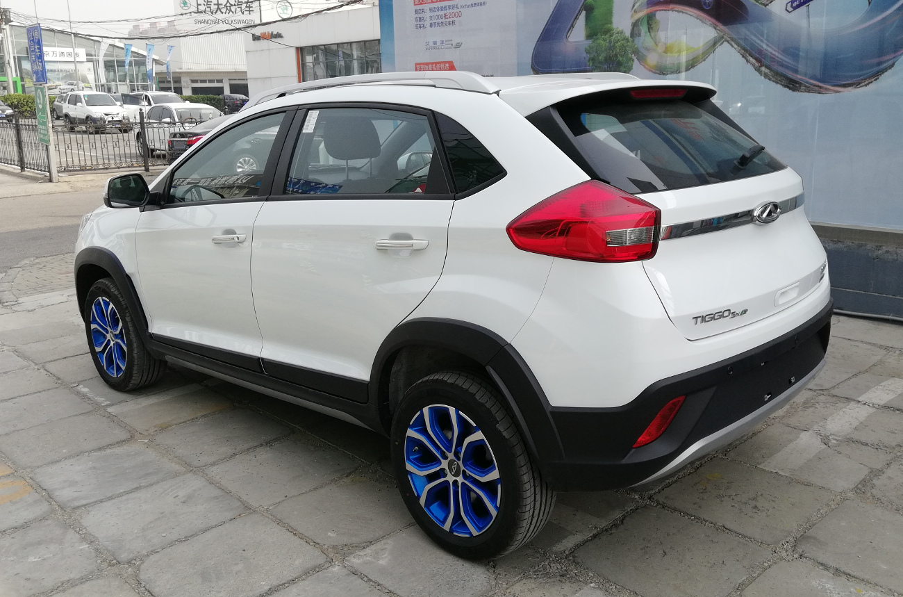 Chery Tiggo 3Xe photographed in Beijing, China.